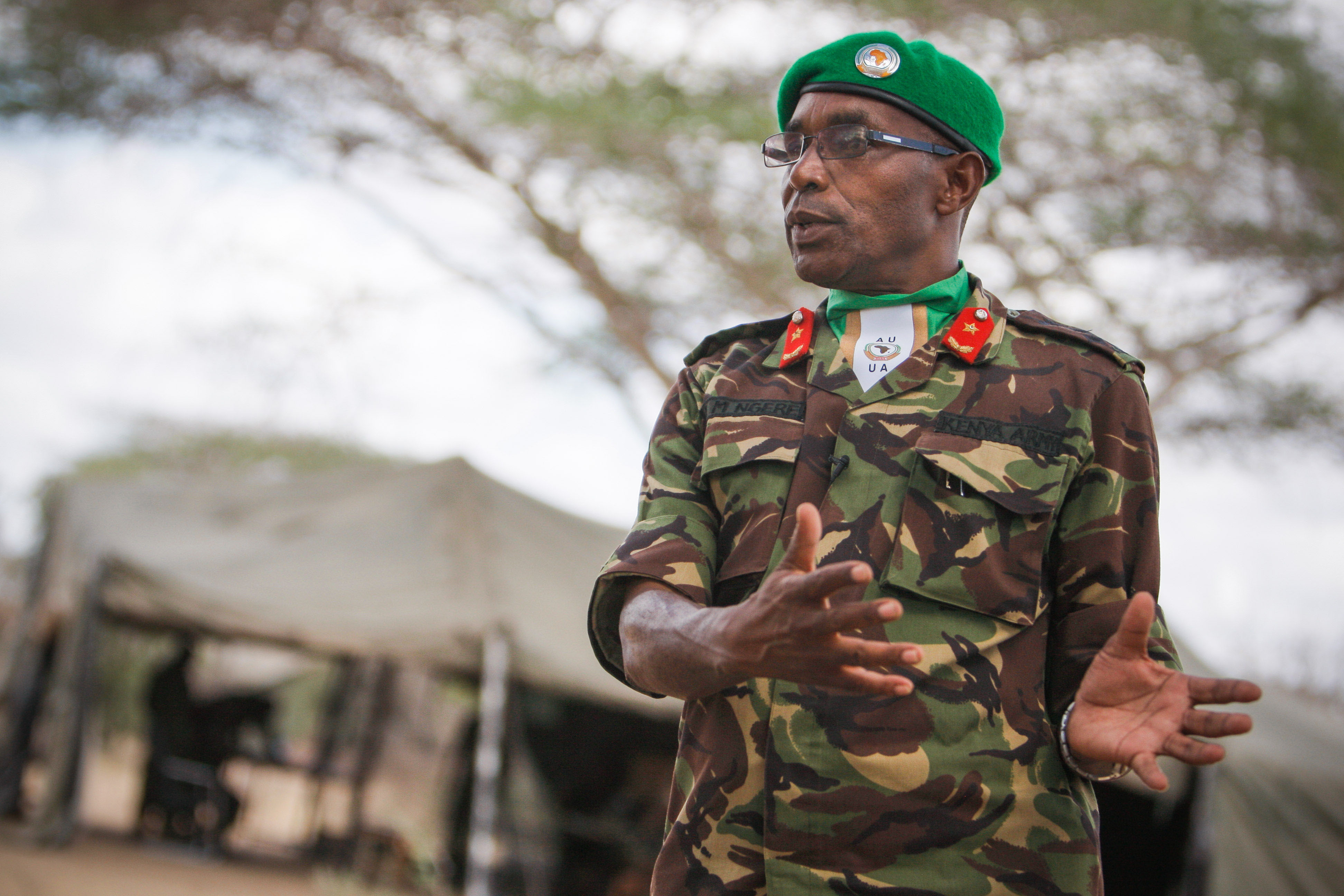 Brigadier Anthony Ngere the African Union Mission in Somalia (AMISOM) commander of Sector Two and head of the Kenyan contingent serving with AMISOM, discusses with senior officers at their Sector Headquarters in the town of Dhobley, Southern Somalia, 30 September 2012. AU-UN IST PHOTO / STUART PRICE.